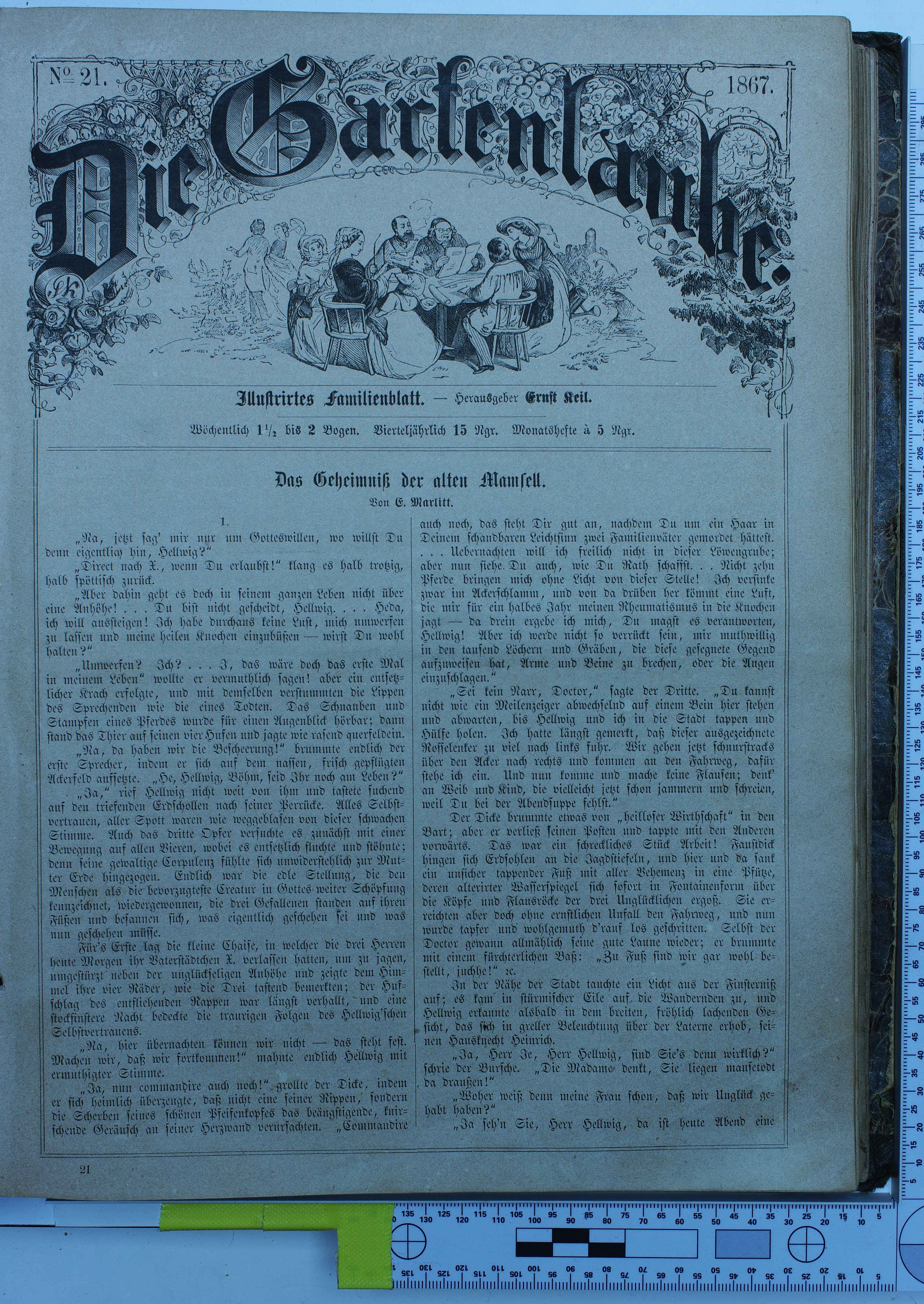 no caption